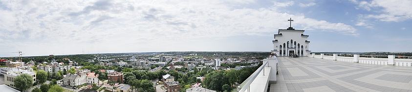 Panorama of Kaunas from Christ’s Resurrection Church, Lithuania.